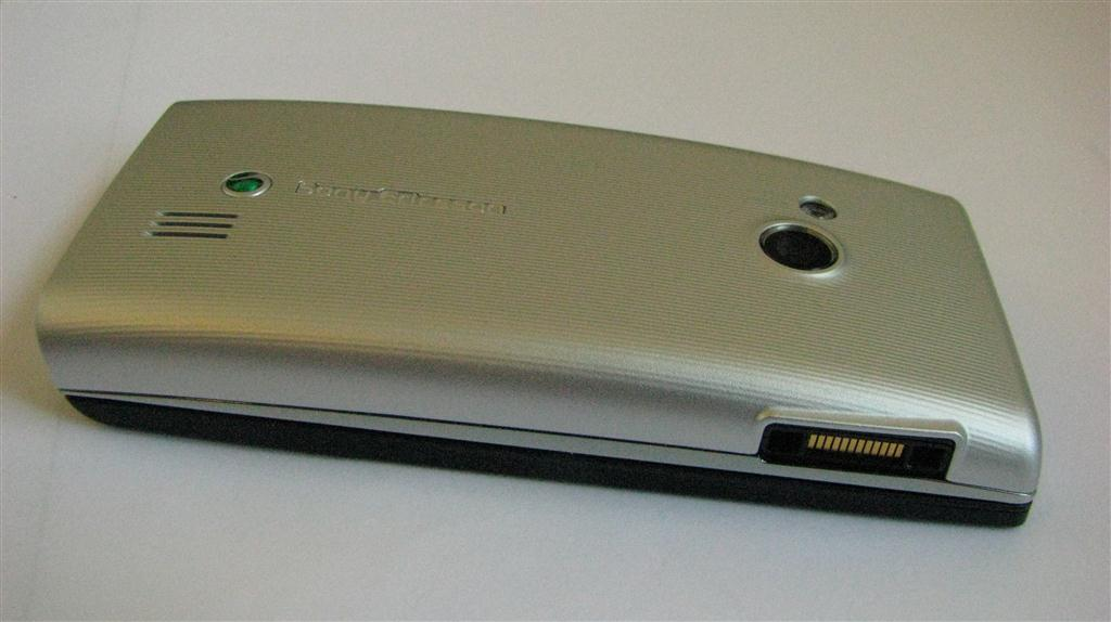 Sony Ericsson Hazel, mobile phone